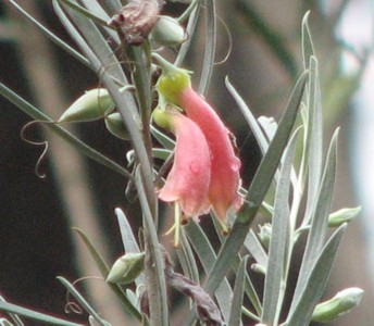 Eremophila youngii, Maranoa Gardens, Balwyn, Victoria, Australia